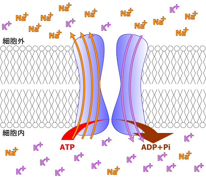 Na-K exchange pump